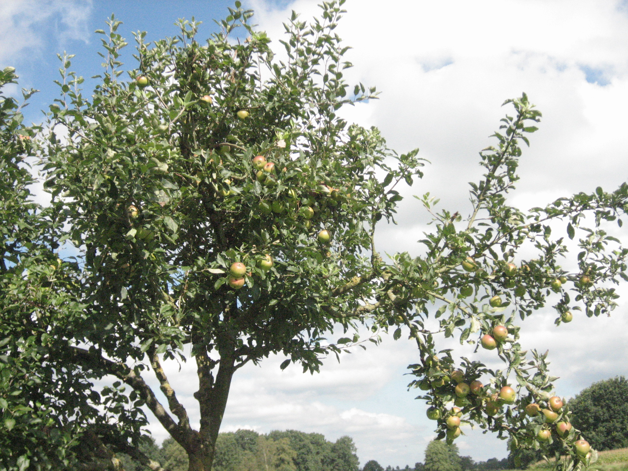 Fruit-bearing James Grieve apple tree